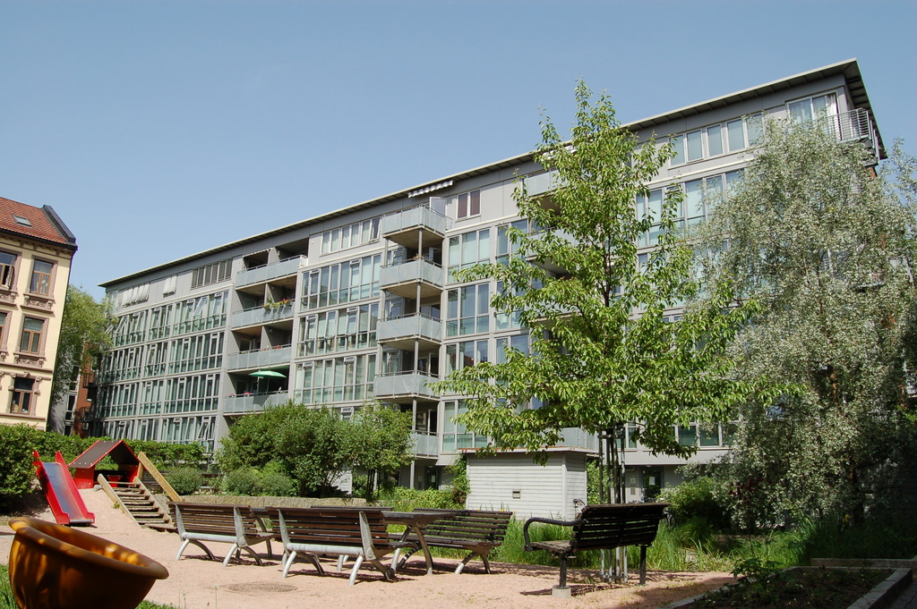 Klosterenga housing cooperative in Gamlebyen (Old town), Oslo, Norway.